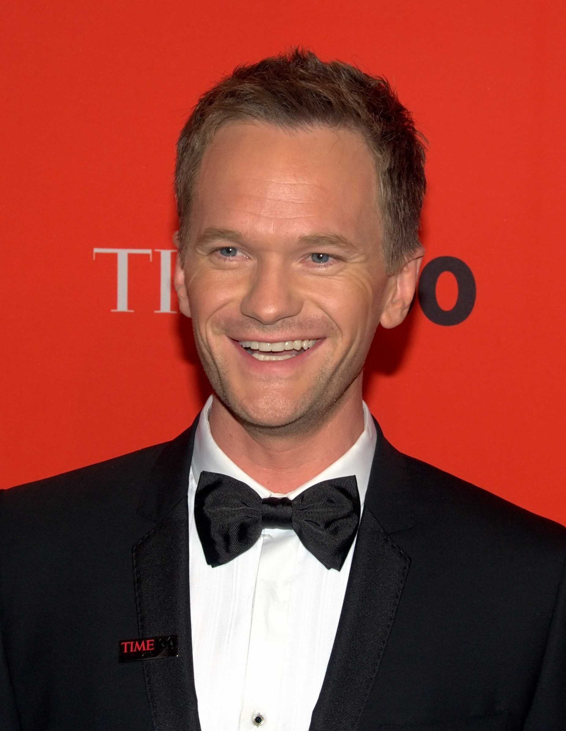 Actor Neil Patrick Harris at the Time 100 Gala, May 3, 2010. Photo by David Shankbone. This photos is licensed under the Attribution 3.0 license, which means it can be used and modified for any purpose only if the author is properly credited where it is used.